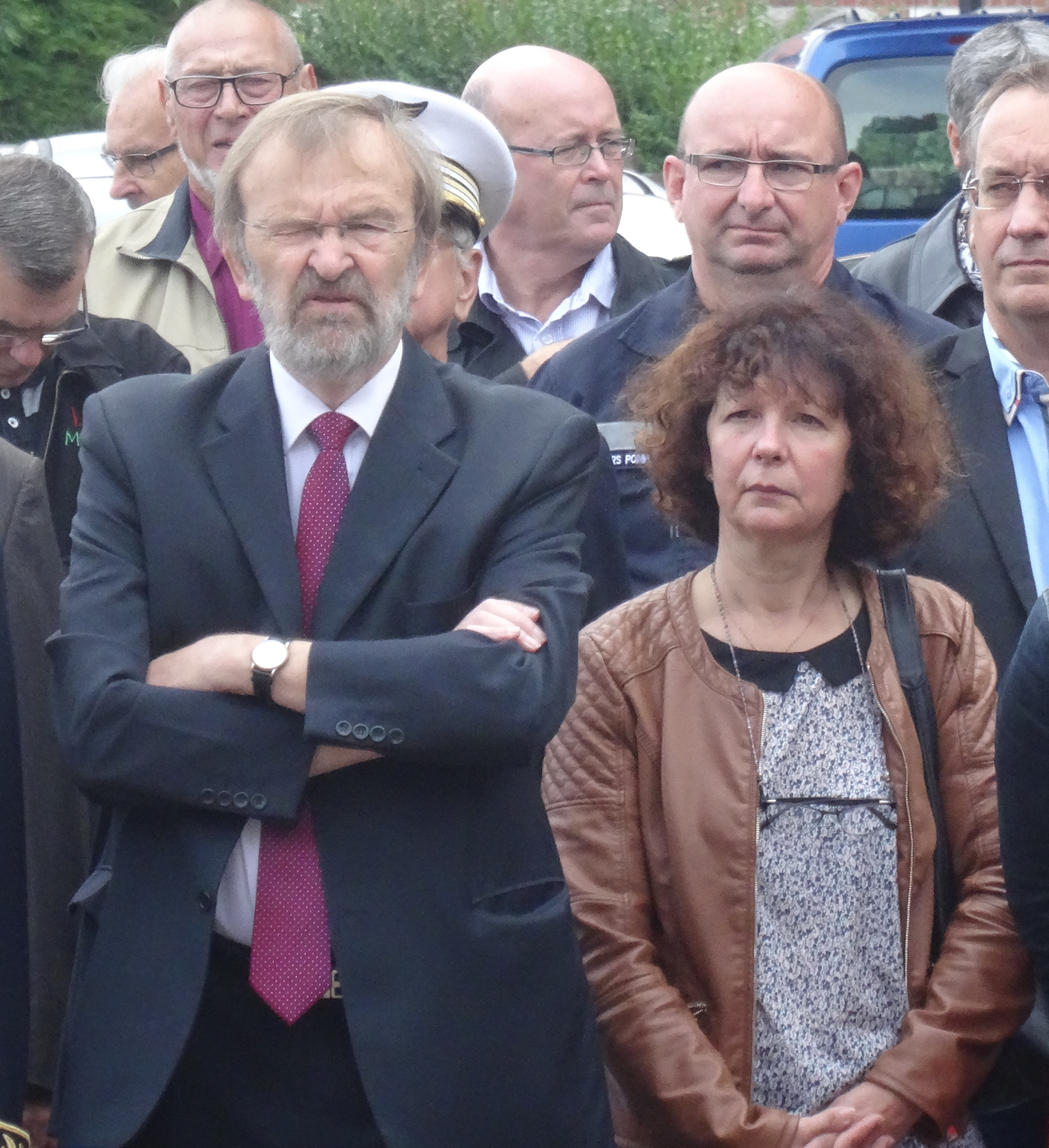 Depicted place: Q55379437 Depicted people: Jean-Jacques Candelier and Nadine Vahé-Mortelette